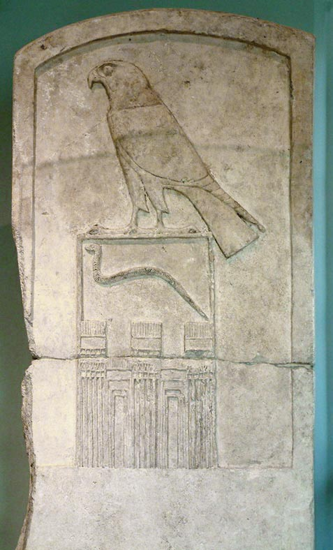 Tombstone of Djet, also known as Wadji, Wadj, Iti and Oenepes, from the 1st dynasty.